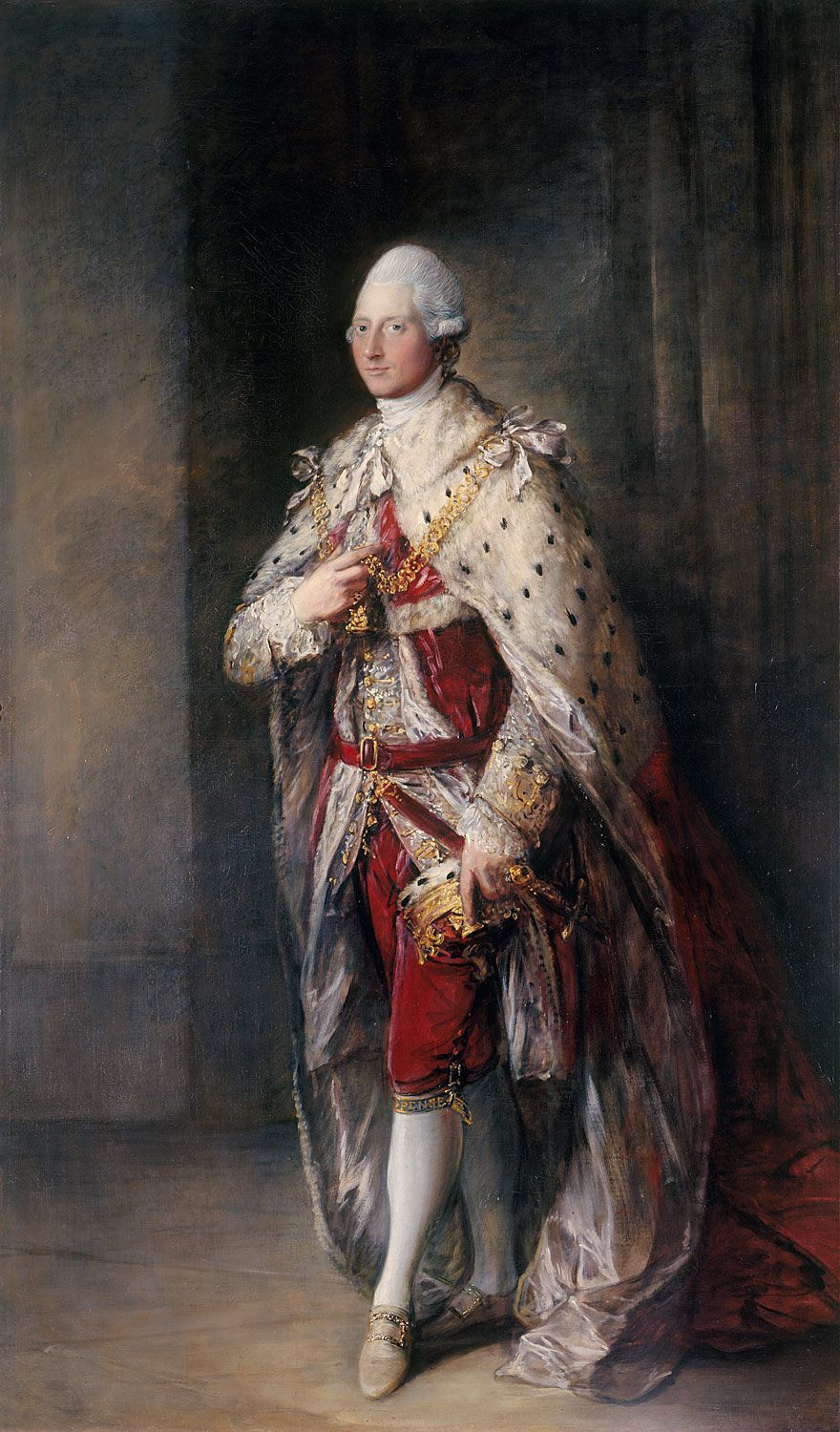 Portrait of Henry, Duke of Cumberland (1745-90)